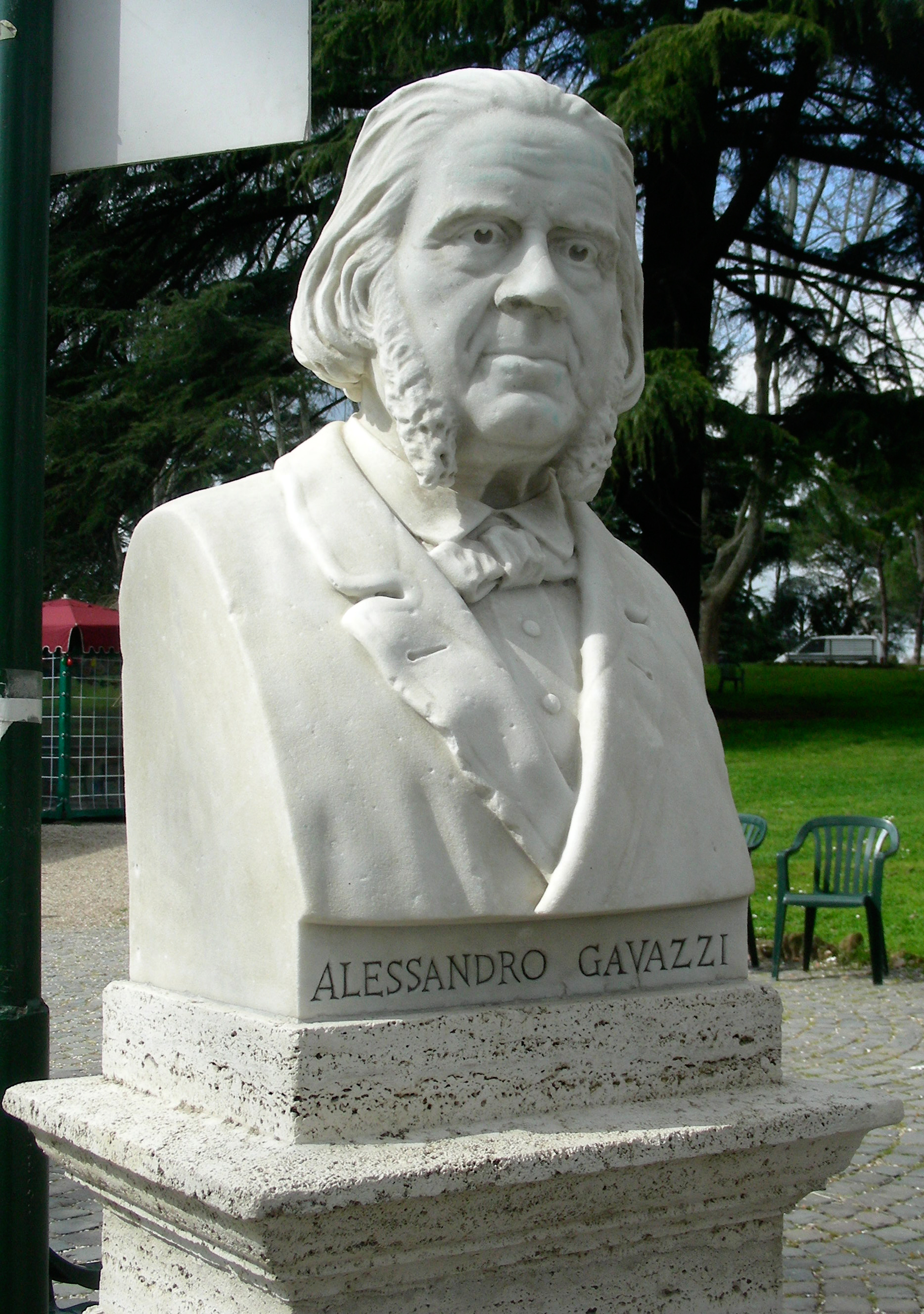 Rome, park of Gianicolo, bust of Alessandro Gavazzi (1809-1889), by Raffaele Cotogni, 1892